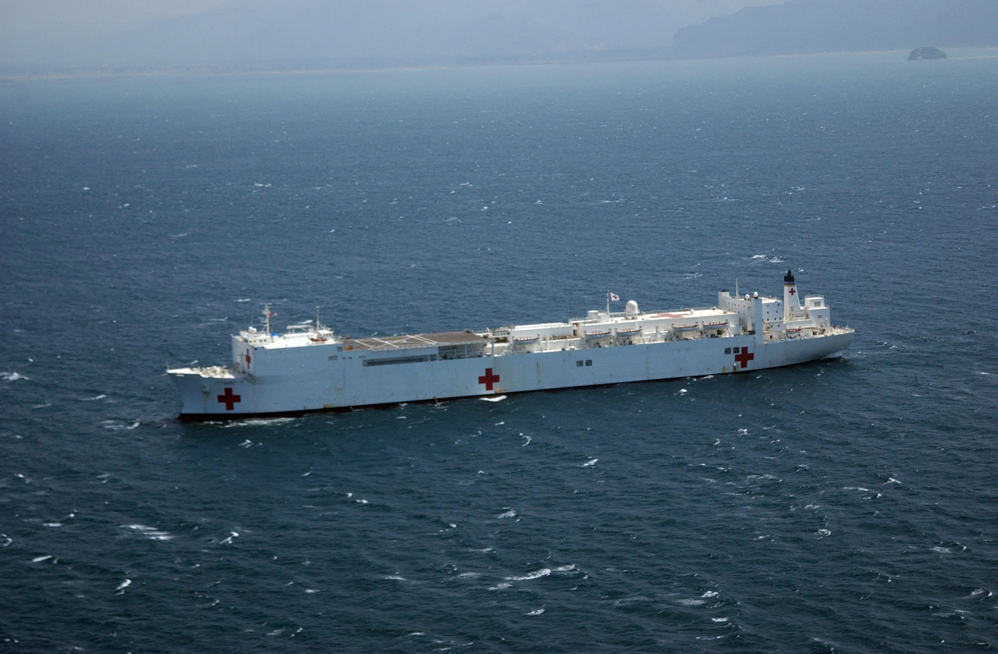 Indian Ocean (Feb. 12, 2005) - The Military Sealift Command (MSC) hospital ship USNS Mercy (T-AH 19) on station off the coast of Banda Aceh on the island of Sumatra, Indonesia. Mercy is serving as an enabling platform to assist humanitarian operations ashore in ways that host nations and international relief organization find useful. Mercy is currently off the waters of Indonesia in support of Operation Unified Assistance, the humanitarian relief effort to aid the victims of the tsunami that struck Southeast Asia. U.S. Navy photo by Photographer's Mate 1st Class Jon Gesch (RELEASED)